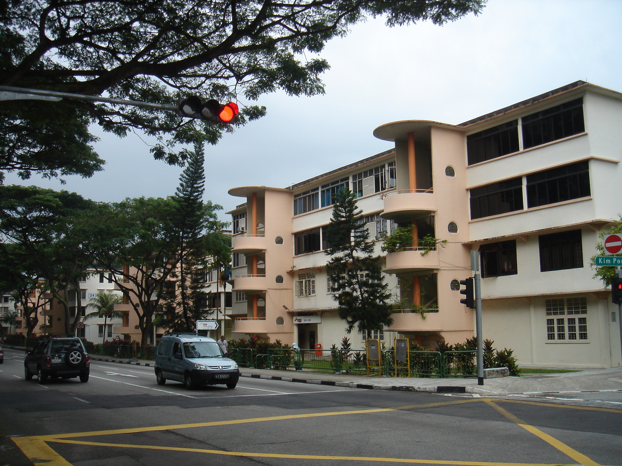 Singapore Improvement Trust Housing at Tiong Bahru, Singapore. (Front view)